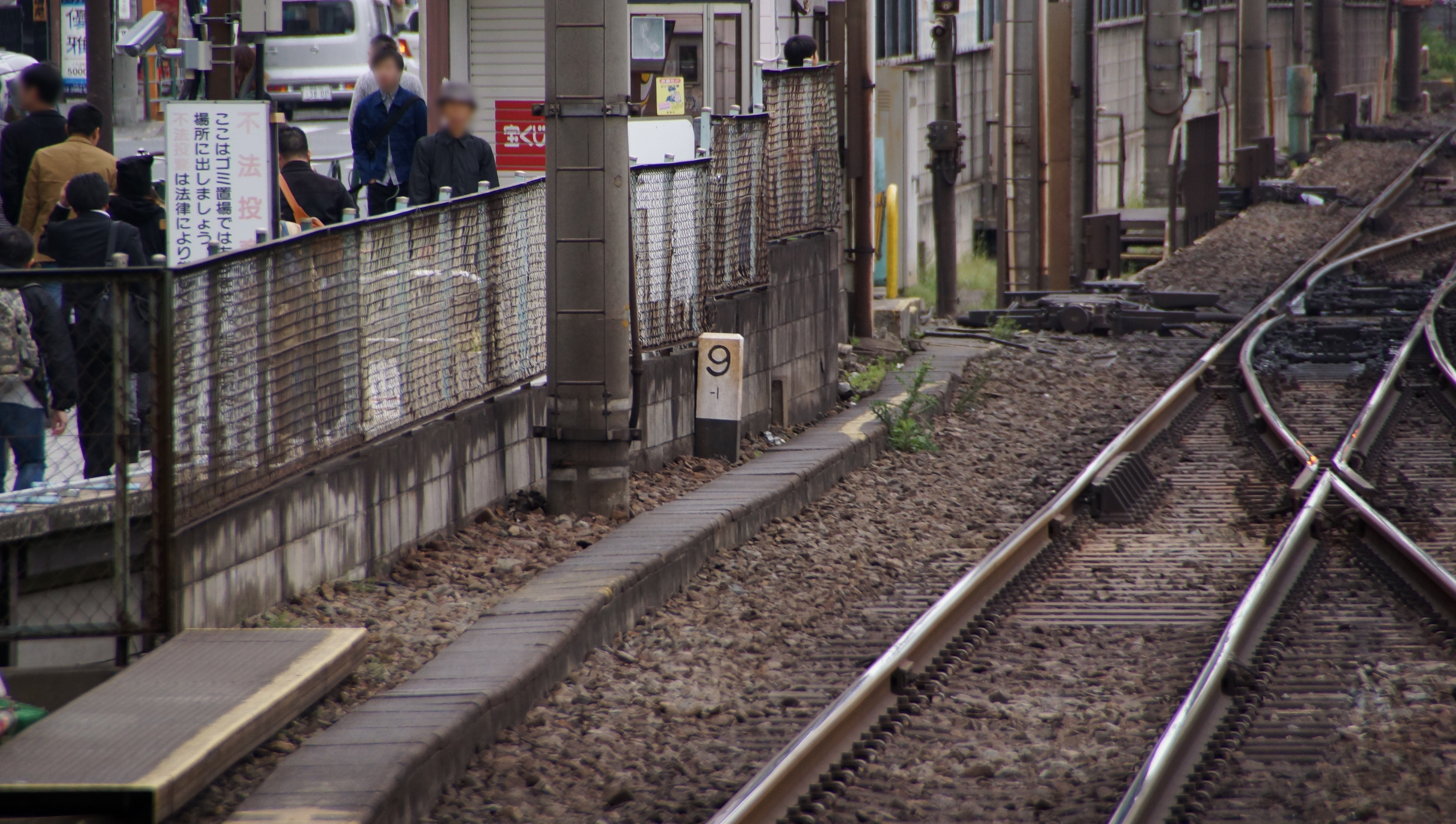 The "-1.9 km" marker next to the tracks at the throat of Ikebukuro Station on the Tobu Tojo Line in Tokyo, Japan